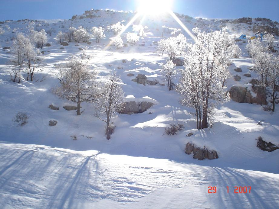 The Hermon Mountain, Geography of Israel